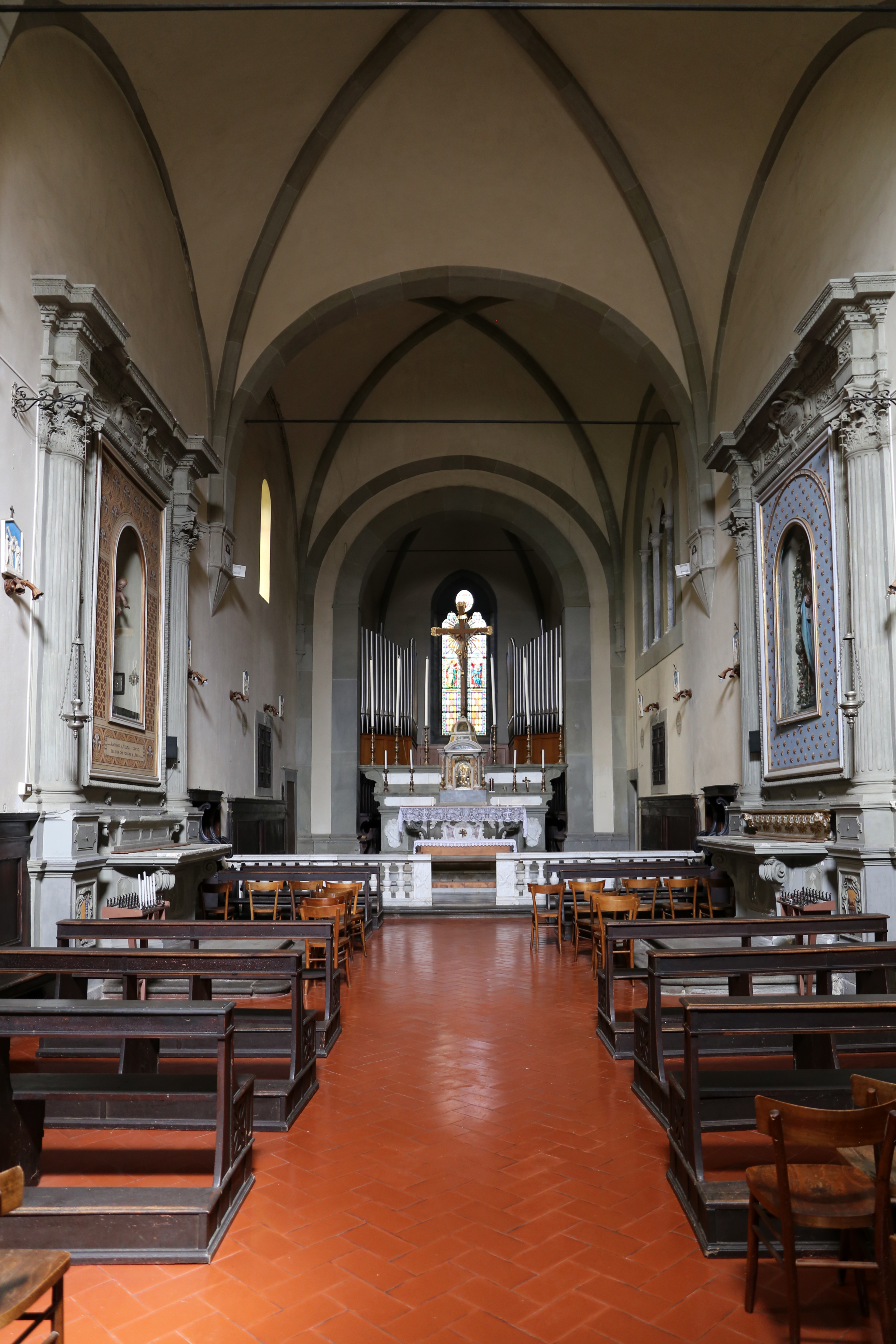 Giaccherino convent - Church interior